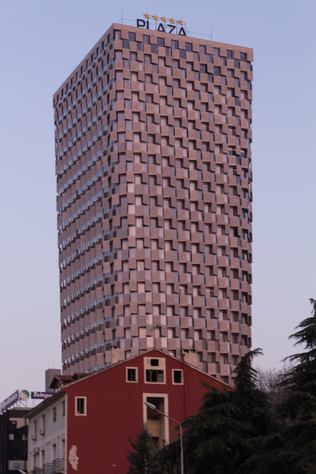 TID Tower Tirana